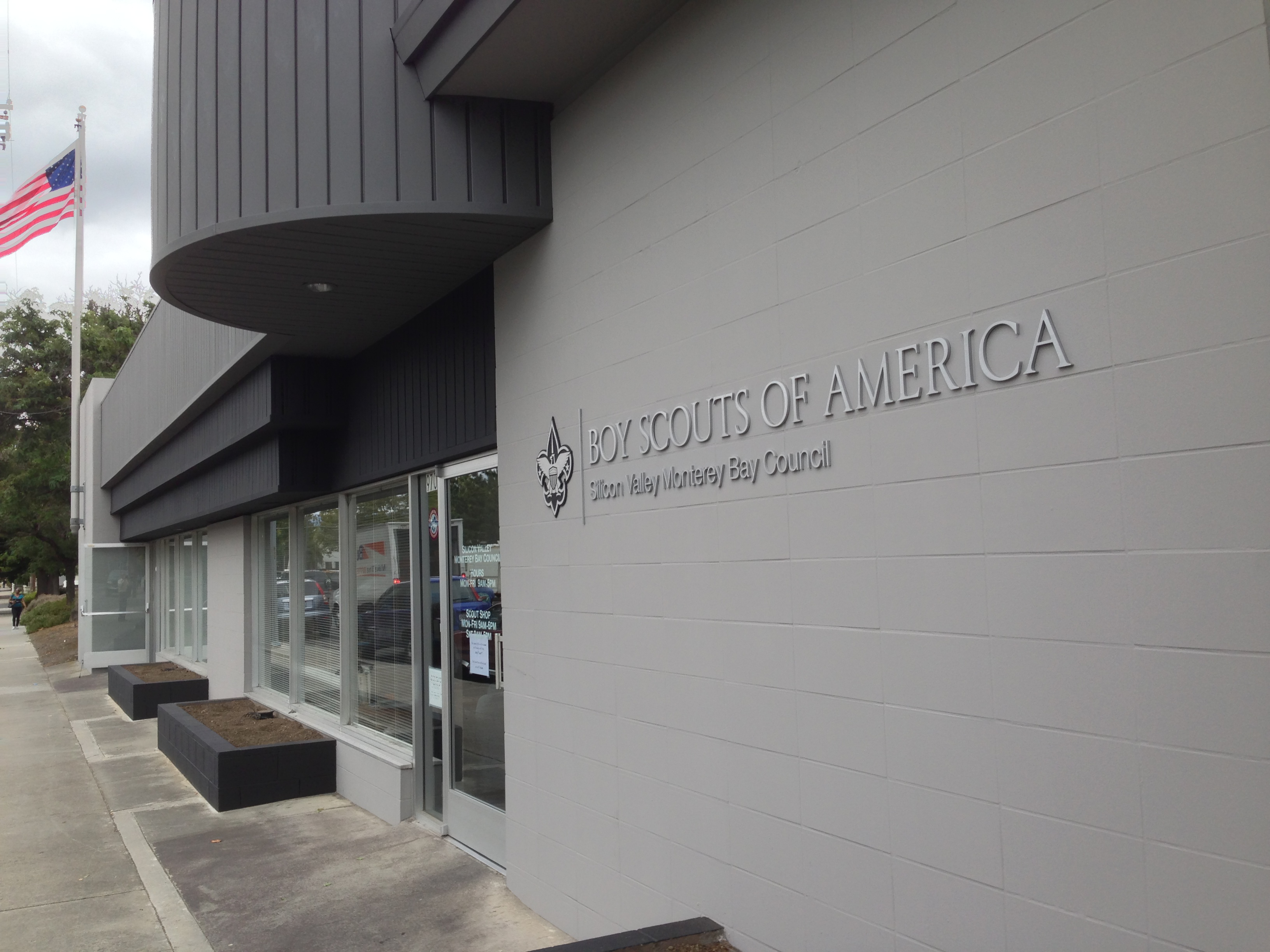 Silicon Valley Monterey Bay Council